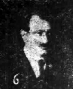 Portrait of New York assemblyman William M. Feigenbaum (1886-1949)